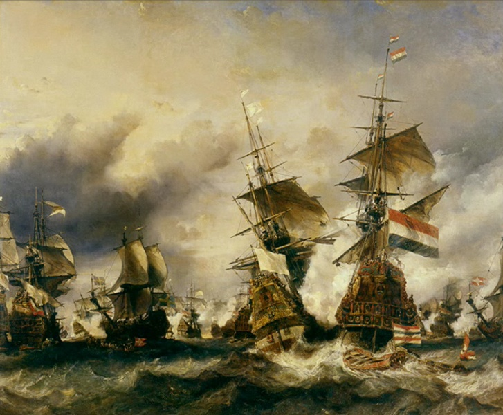 Battle of Texel